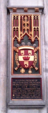 Winchester Cathedral, memorial for Field Marshal Lord Grenfell (died 1925). Location: South wall of Choir.